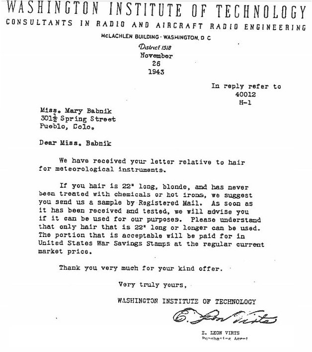 Washington Institute of Technology letter 11 26 1943 inviting Mary Brown to submit her hair to the government's consulting firm.